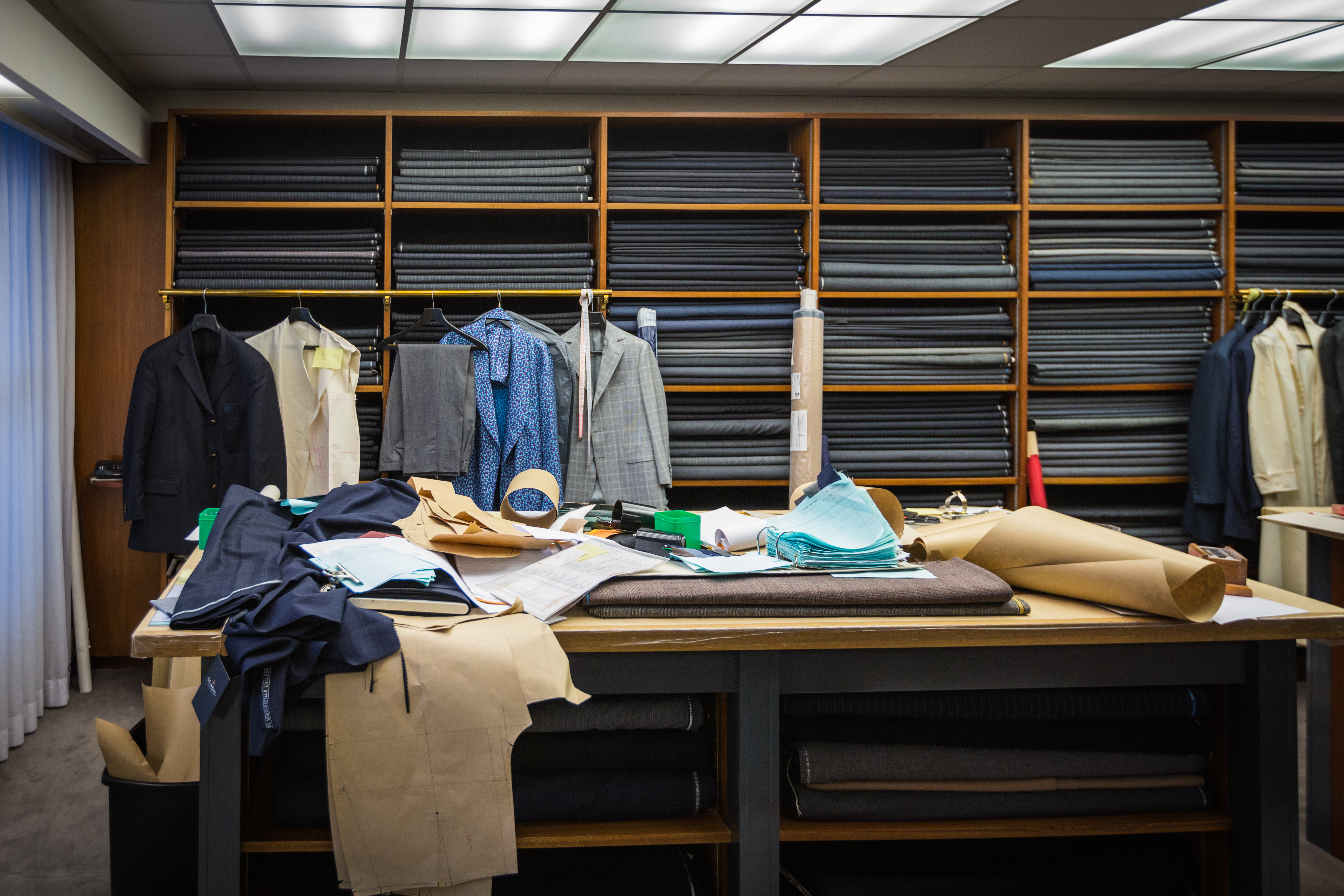 Sixth floor of Charvet's store, place Vendôme in Paris.